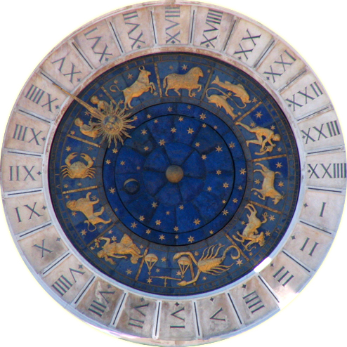 Detail from the astrological clock, Venice